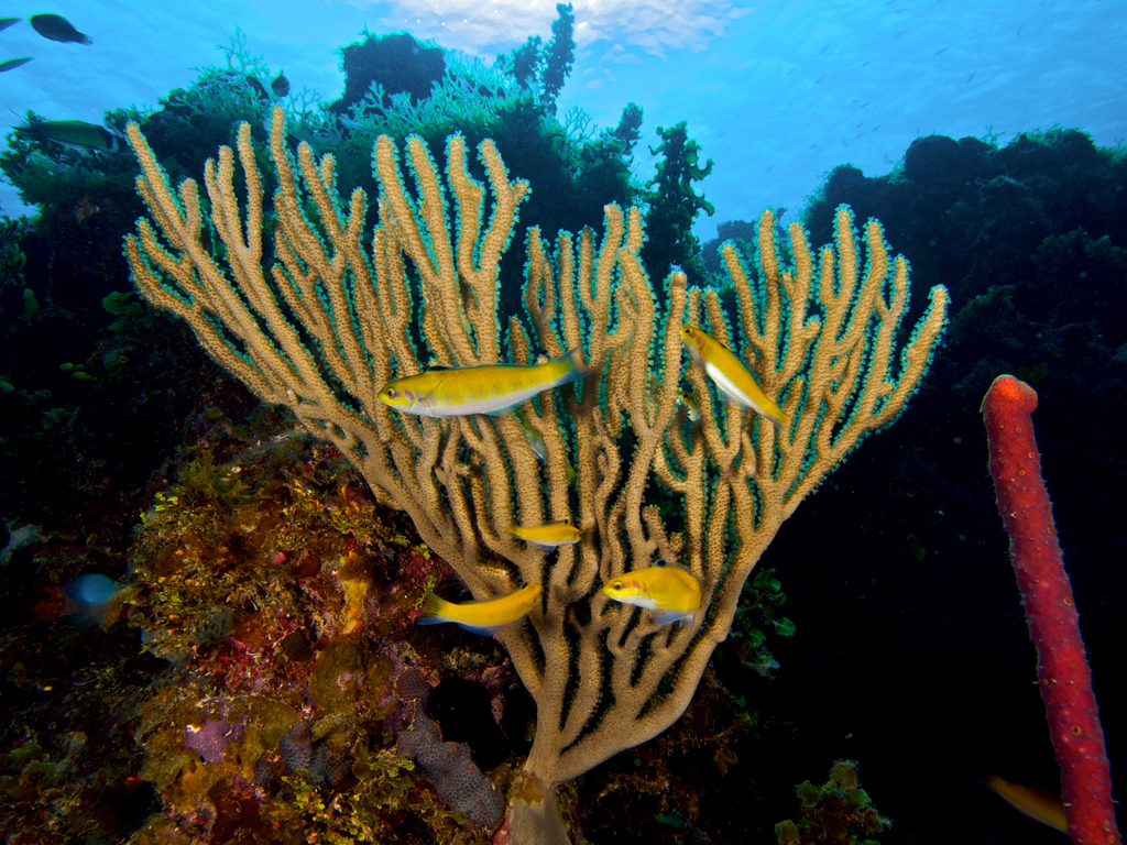 Thalassoma bifasciatum (blue-headed wrasse) in juvenile stage